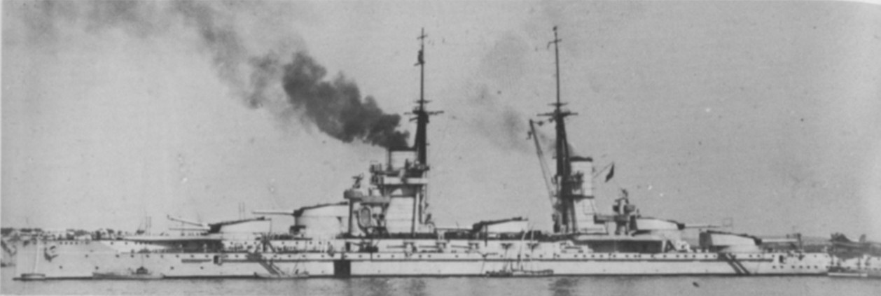 The battleship Conte di Cavour at anchor in Taranto, 9 June 1917